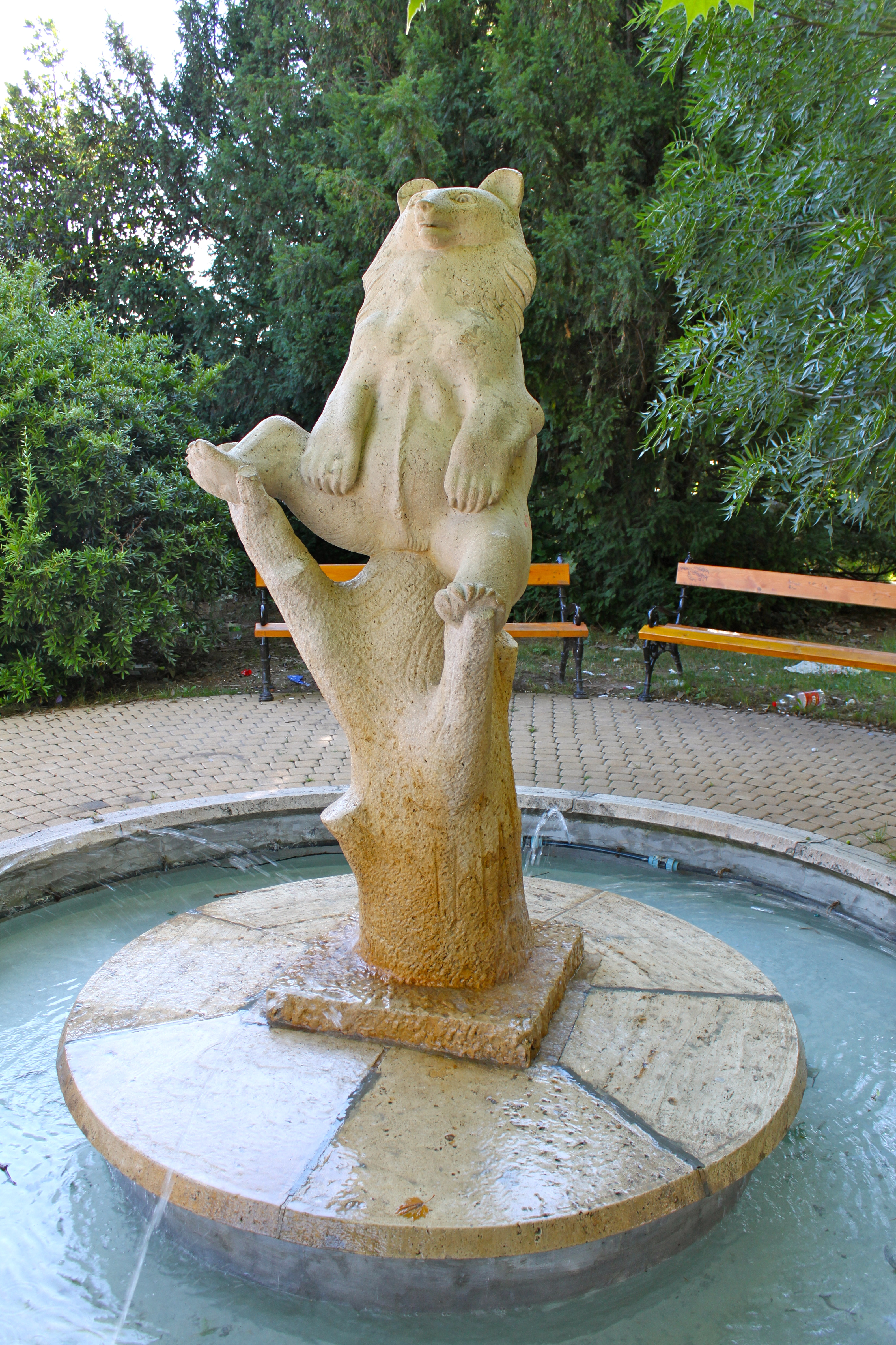 The Conceited Bear sitting on a tree, Limestone statue in Dunaújváros, Artist: József Somogyi, 1950